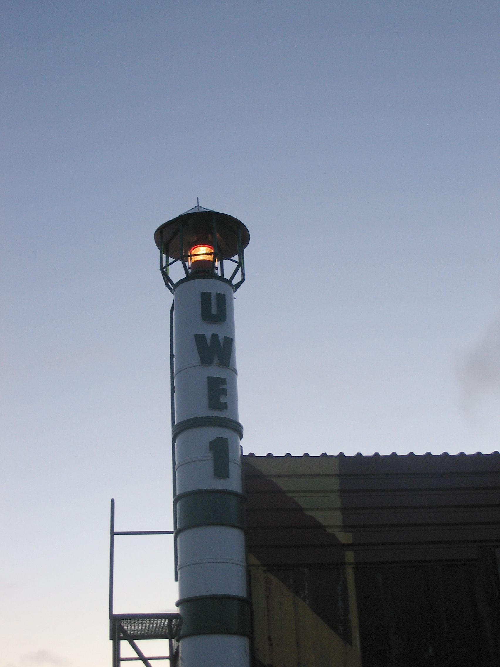 Light beacon in Isbjornhamna, Svalbard